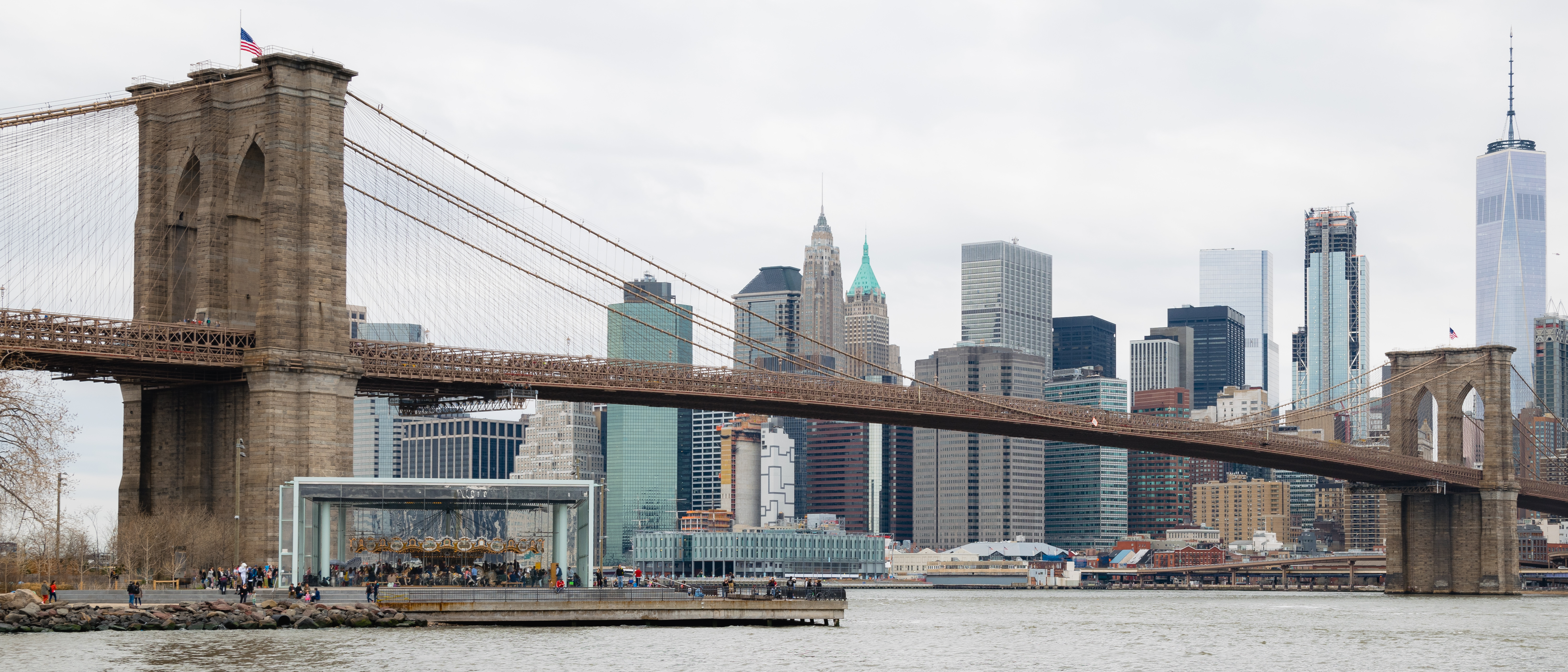 The Brooklyn Bridge with Lower Manhattan in the backround.